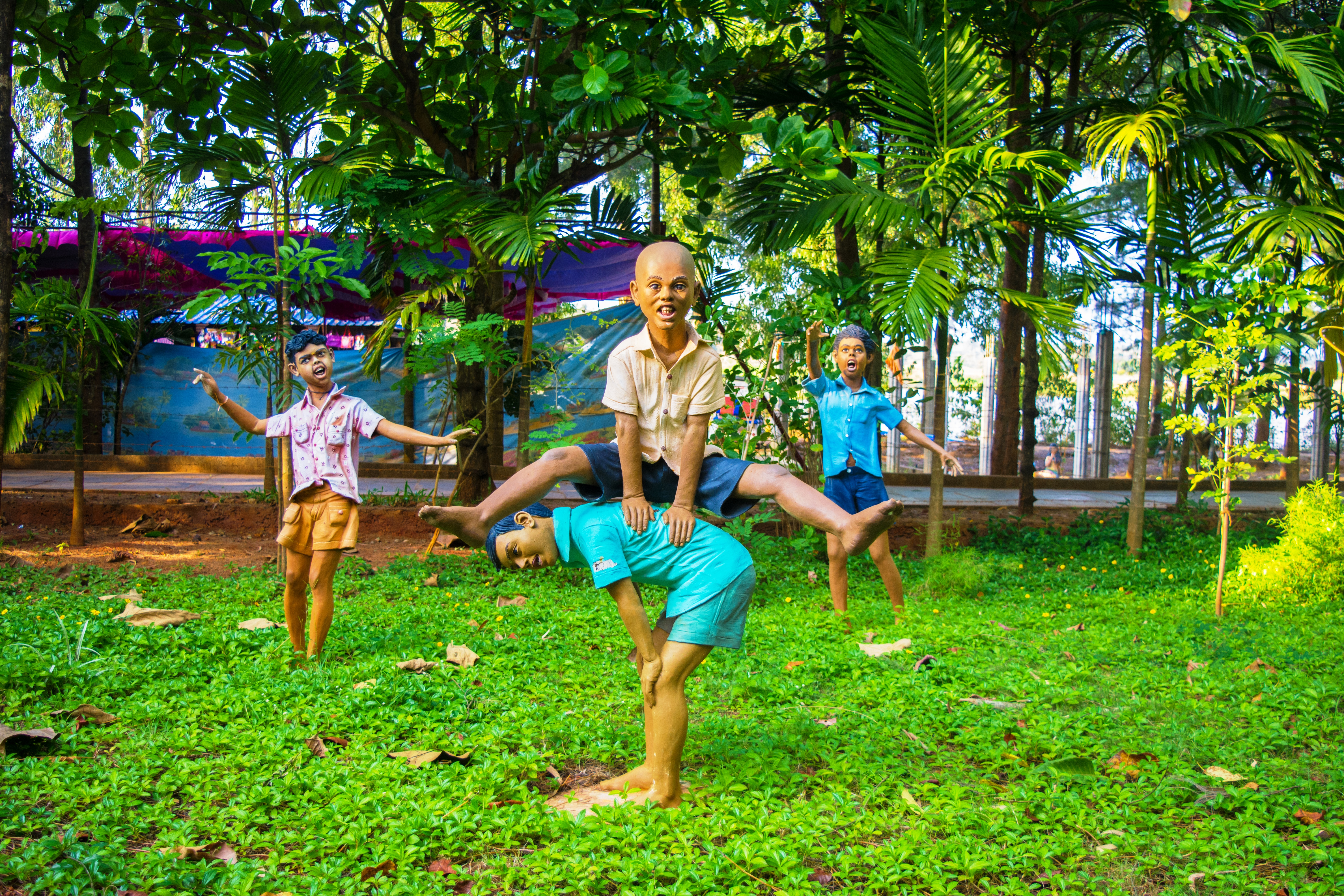 In the Modern Lifestyle where Smart phones occupied all our physical child life games, our kids are more tend to play games on smartphones , which we request all parents and caretakers not to give smart phones and encourage them to play folk games, to know more about folk games visit once to utsav rock garden